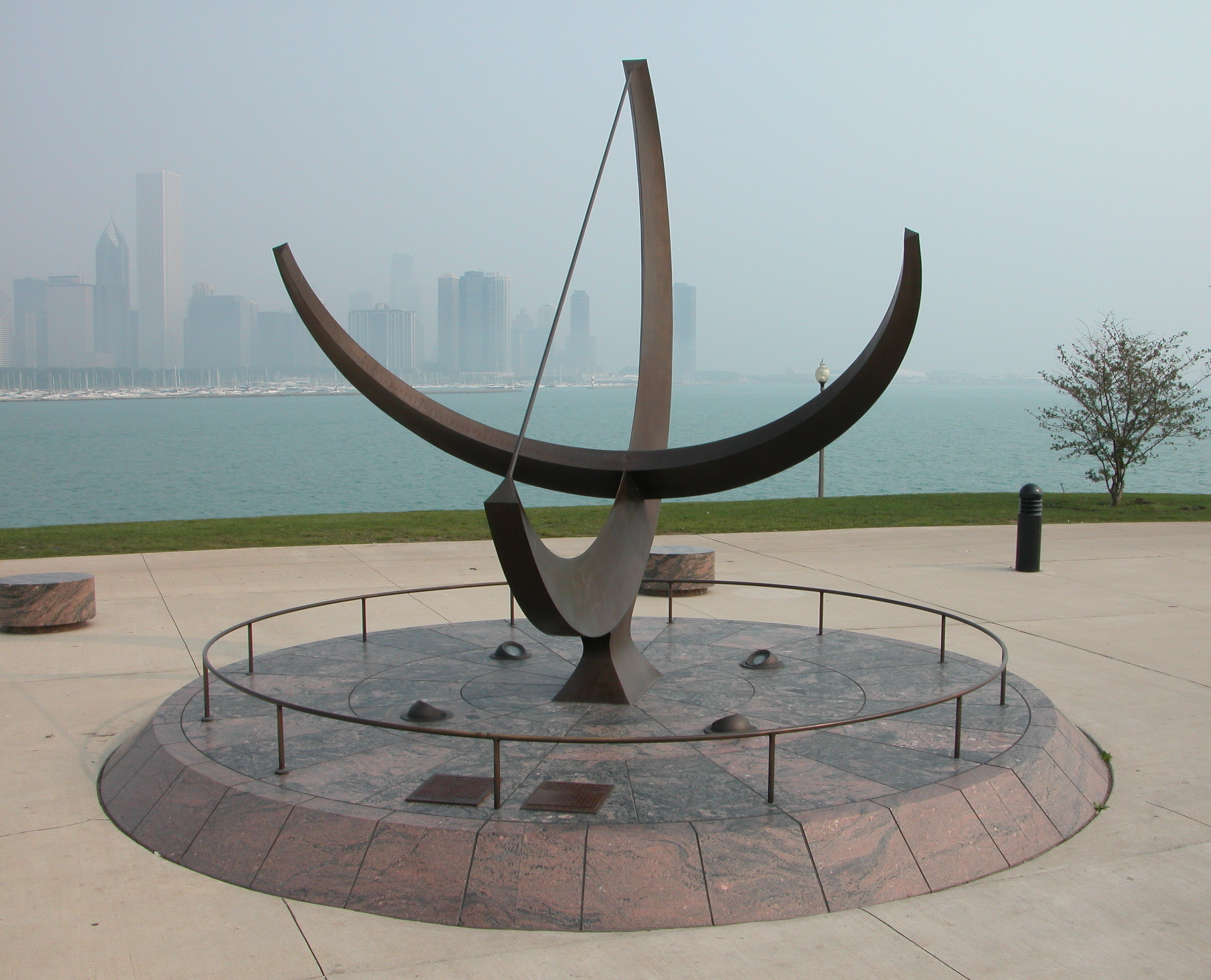 Man Enters the Cosmos sundial in front of Adler Planetarium in Chicago, Illinois.